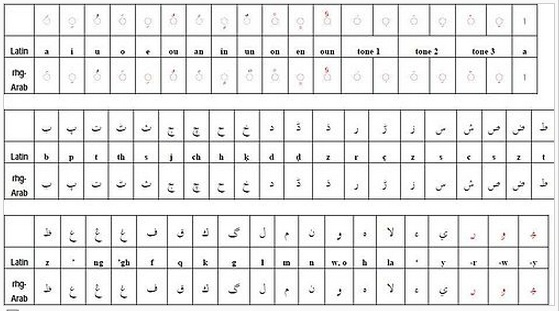 Rohingya Arabic script crop